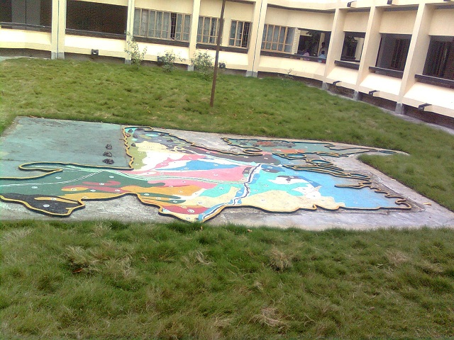 Dinajpur